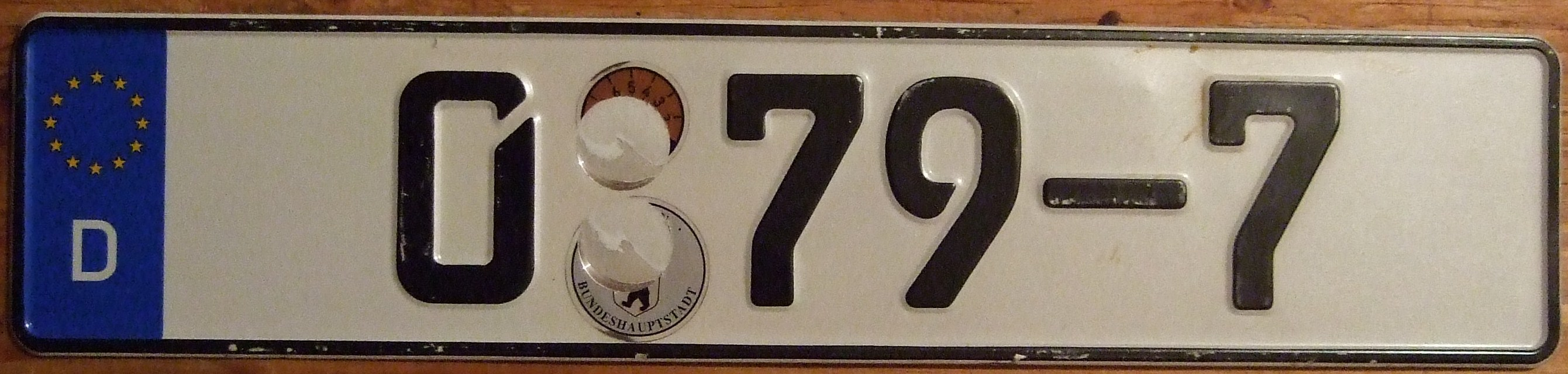 German diplomatic plate issued to the South Korean Embassy. Diplomatic plates all start with a "0" prefic then followed by the embassy code, "79" in this case is the code for South Korea. "7" is the vehicle number